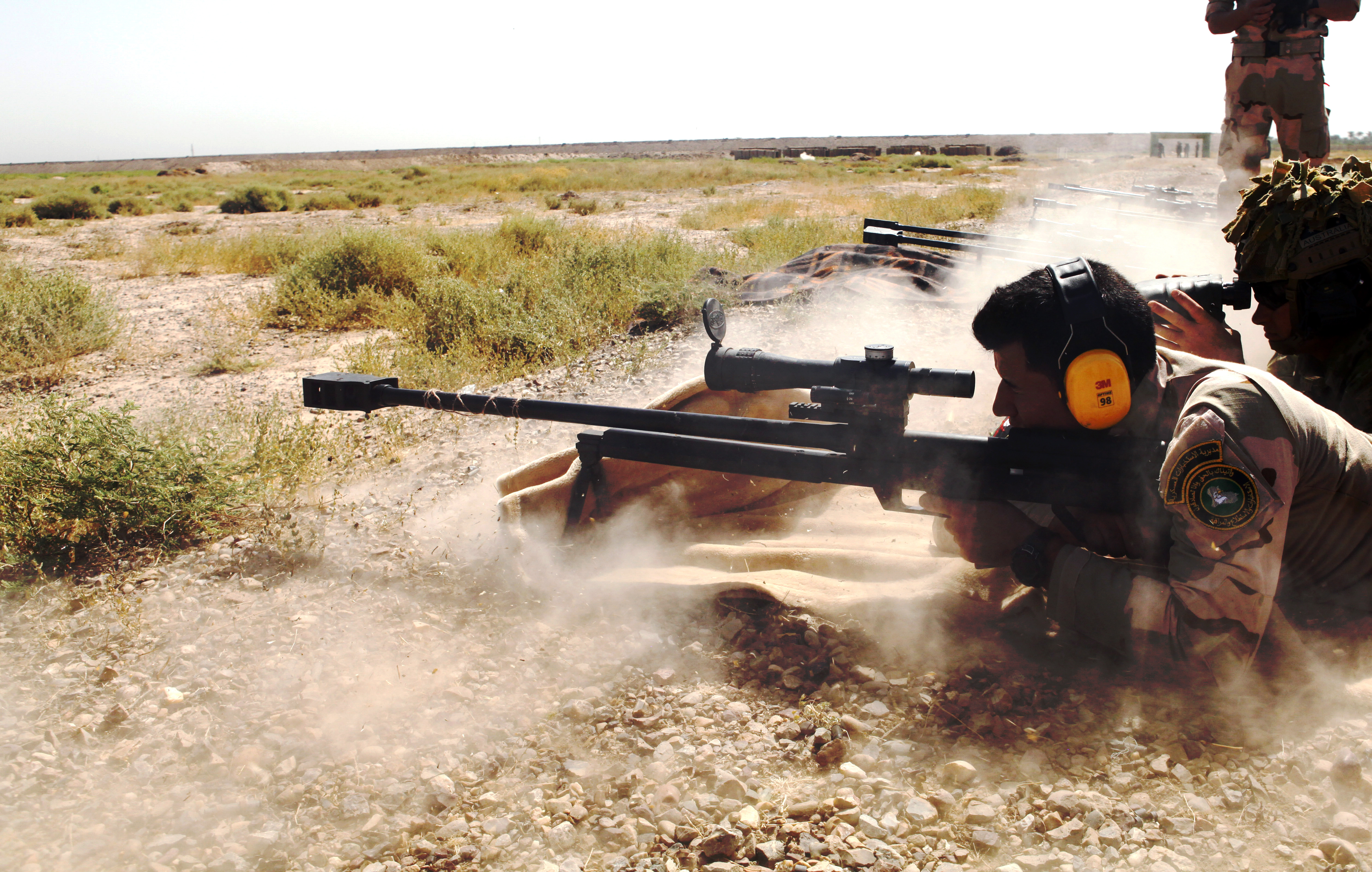 An Iraqi soldier fires a .50-caliber sniper rifle as an Australian soldier attached to Task Group Taji spots a target for him during a zeroing classat Camp Taji, Iraq, June 22, 2016. The ability to accurately fire a .50-caliber sniper rifle will supplement the Iraqi soldiers’ overall tactical capabilities. Training at the building partner capacity sites is an integral part of Combined Joint Task Force – Operation Inherent Resolve’s multinational effort to train Iraqi security forces personnel to defeat the Islamic State of Iraq and the Levant. (U.S. Army photo by Sgt. Joshua Powell/Released) Unit: Combined Joint Task Force - Operation Inherent Resolve DVIDS Tags: CJTF; ISIL; OIR; Task Group Taji